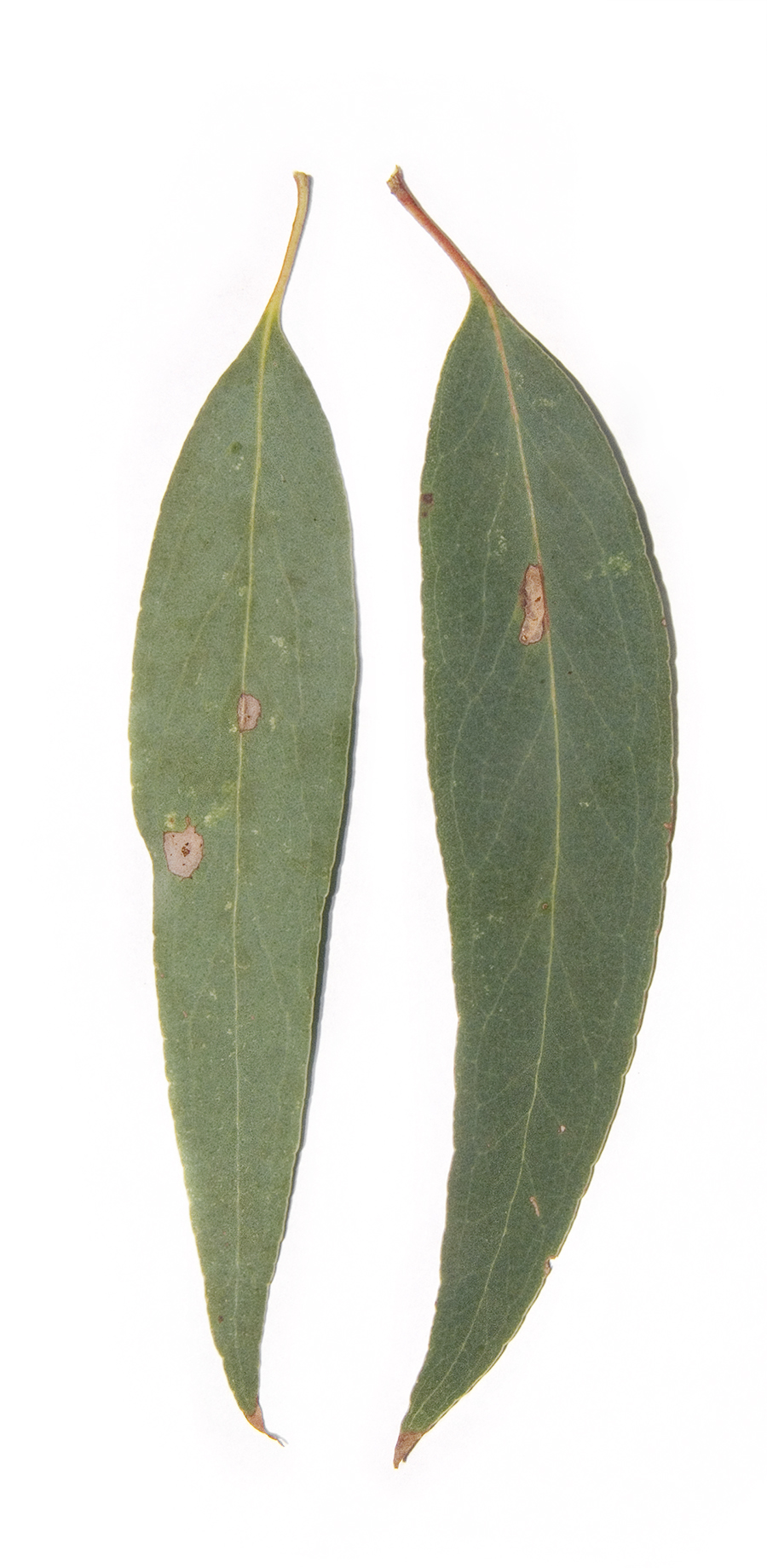 Eucalyptus radiata (Narrow-leaved peppermint) adult leaves. top and underside.